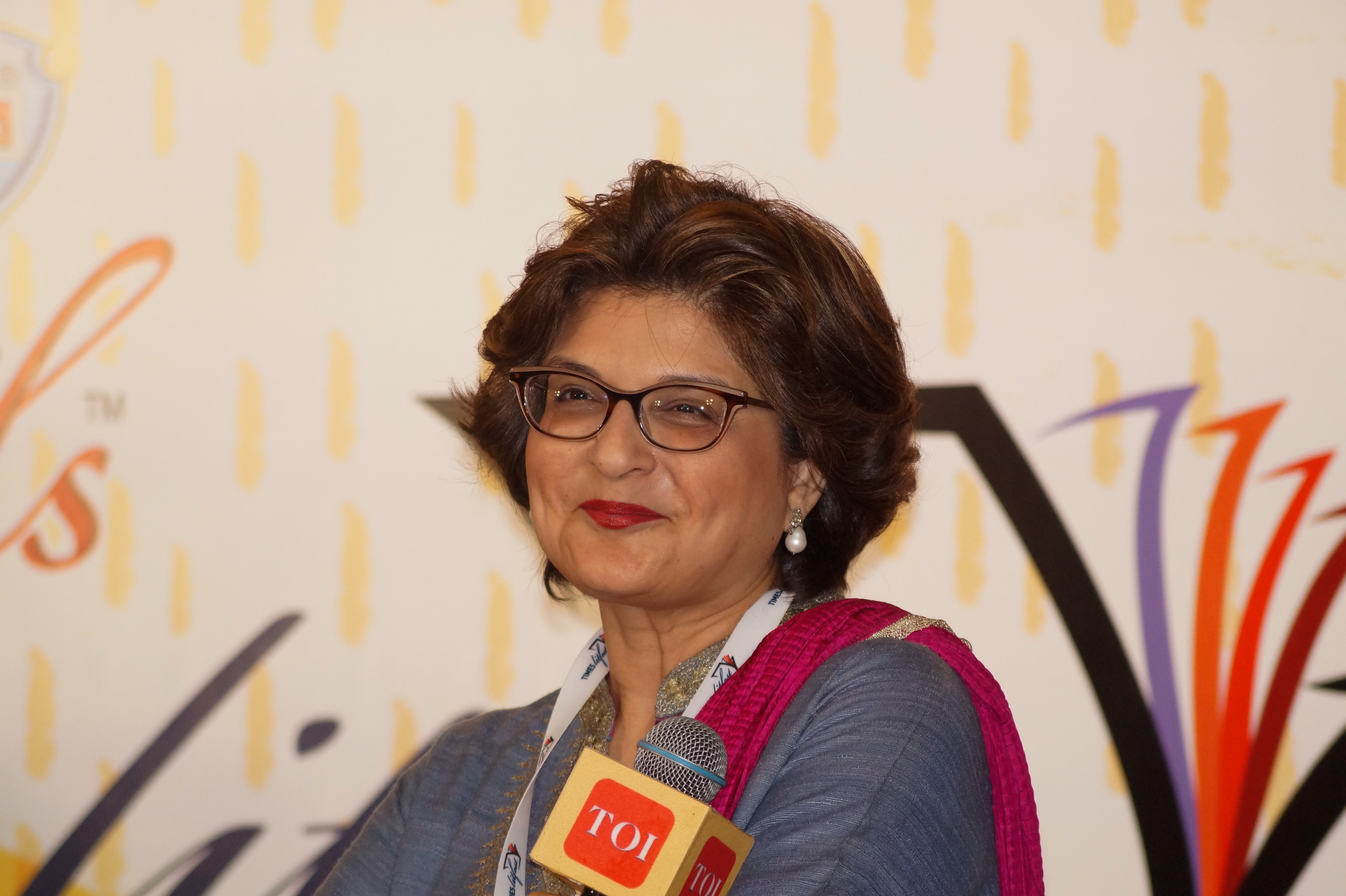 Farahnaz Ispahani at Times Litfest